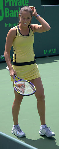 Ana Ivanovic at the 2010 Sony Ericsson Open.